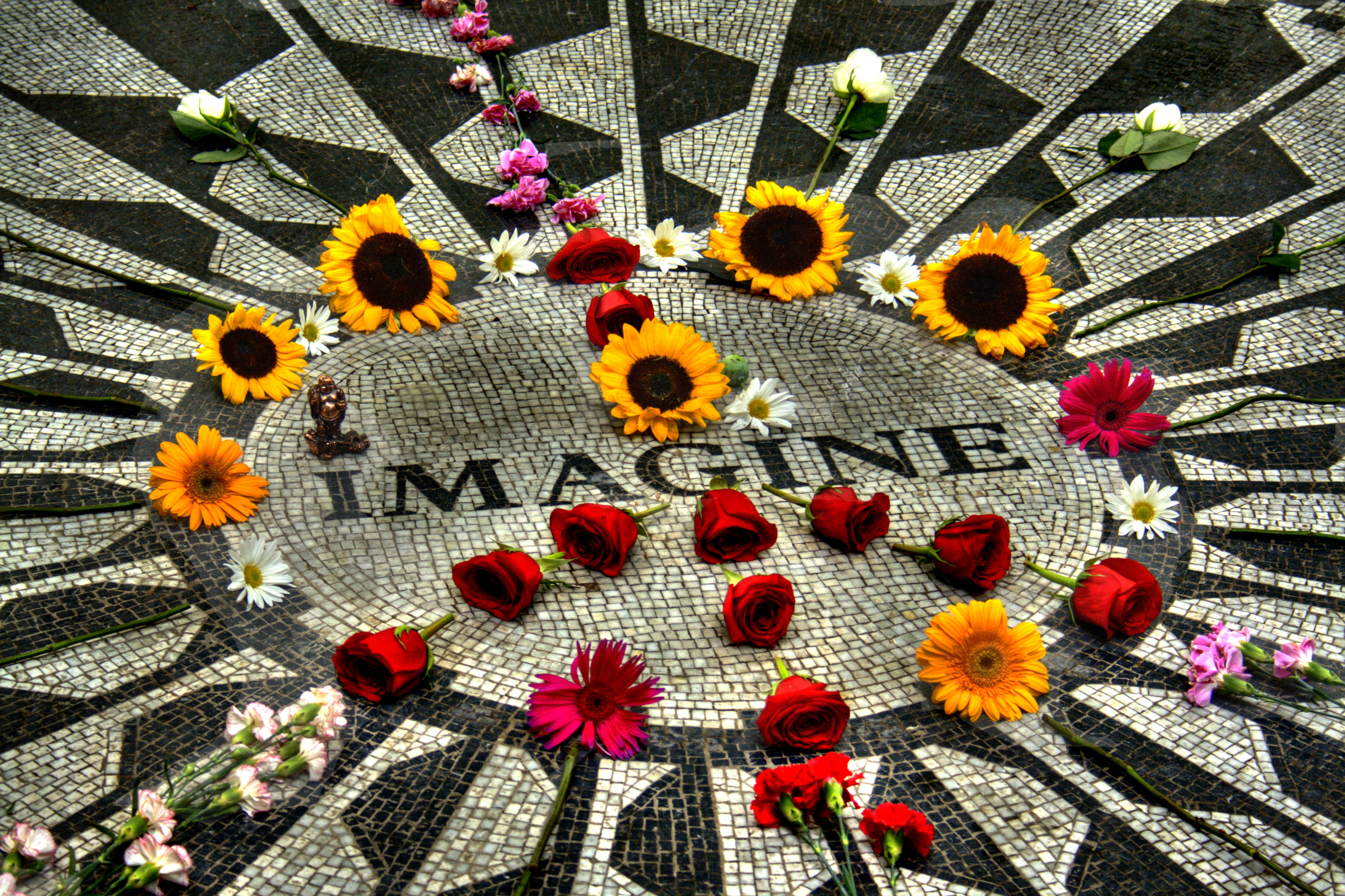 Strawberry Fields Memorial